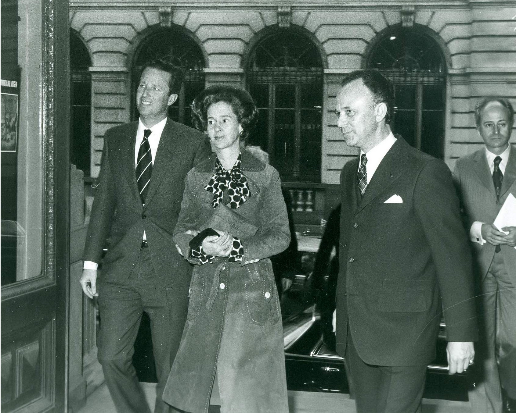 Inauguration of the MRBAB by King Baudoin and Queen Fabiola with Philippe Roberts-Jones on 26 February 1974